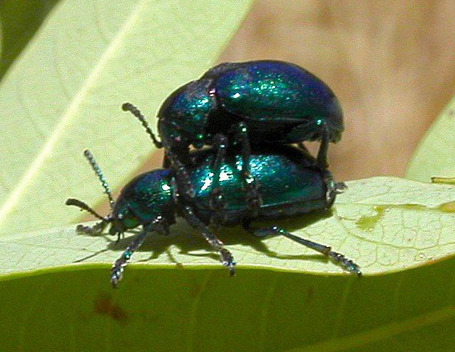 Cobalt milkweed beetle (Chrysochus cobaltinus) taken in Lodi, California